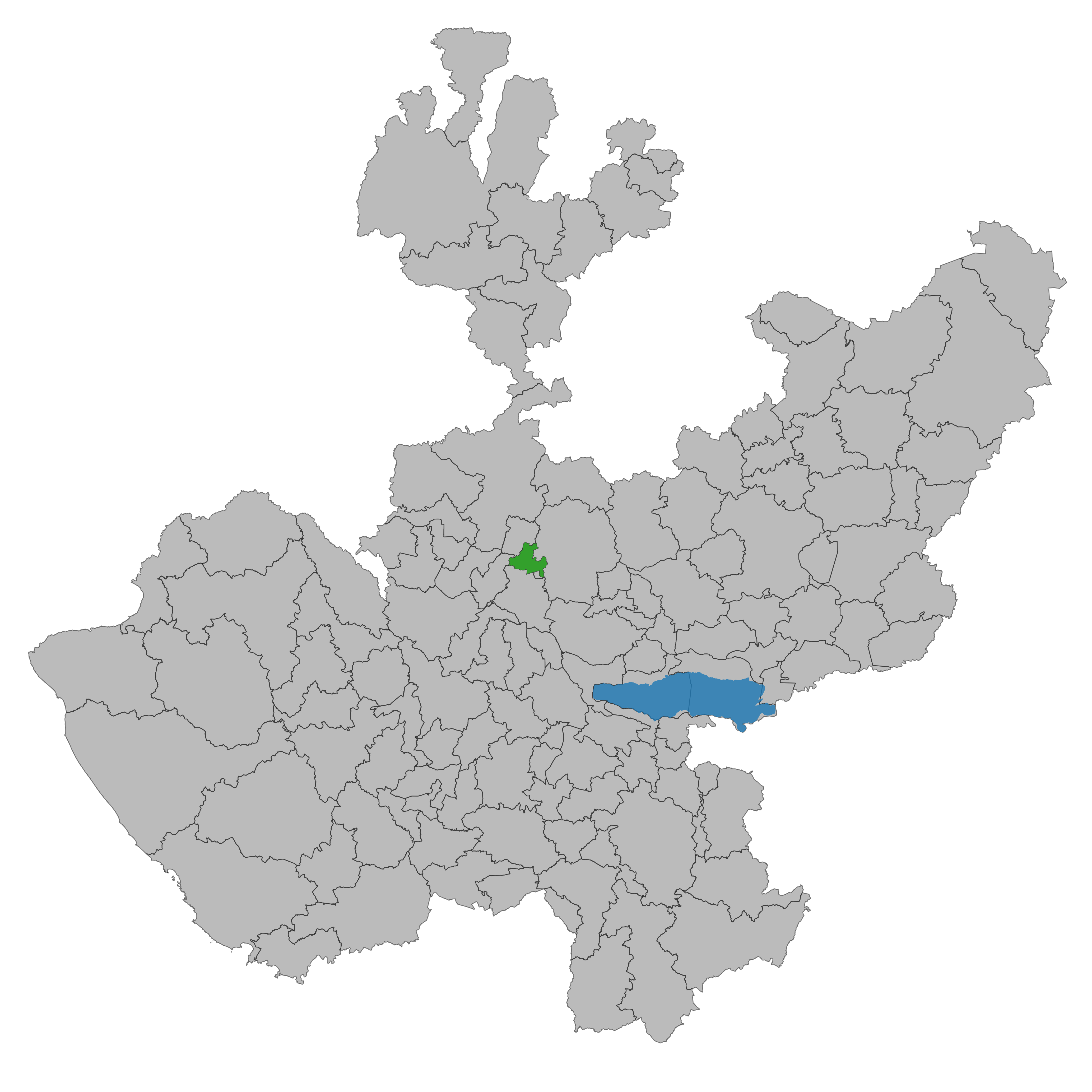 Municipality of Jalisco. Prepared with the software QGIS version 2.8.2 Wien & with information of SCINCE 2010 version 05/2013